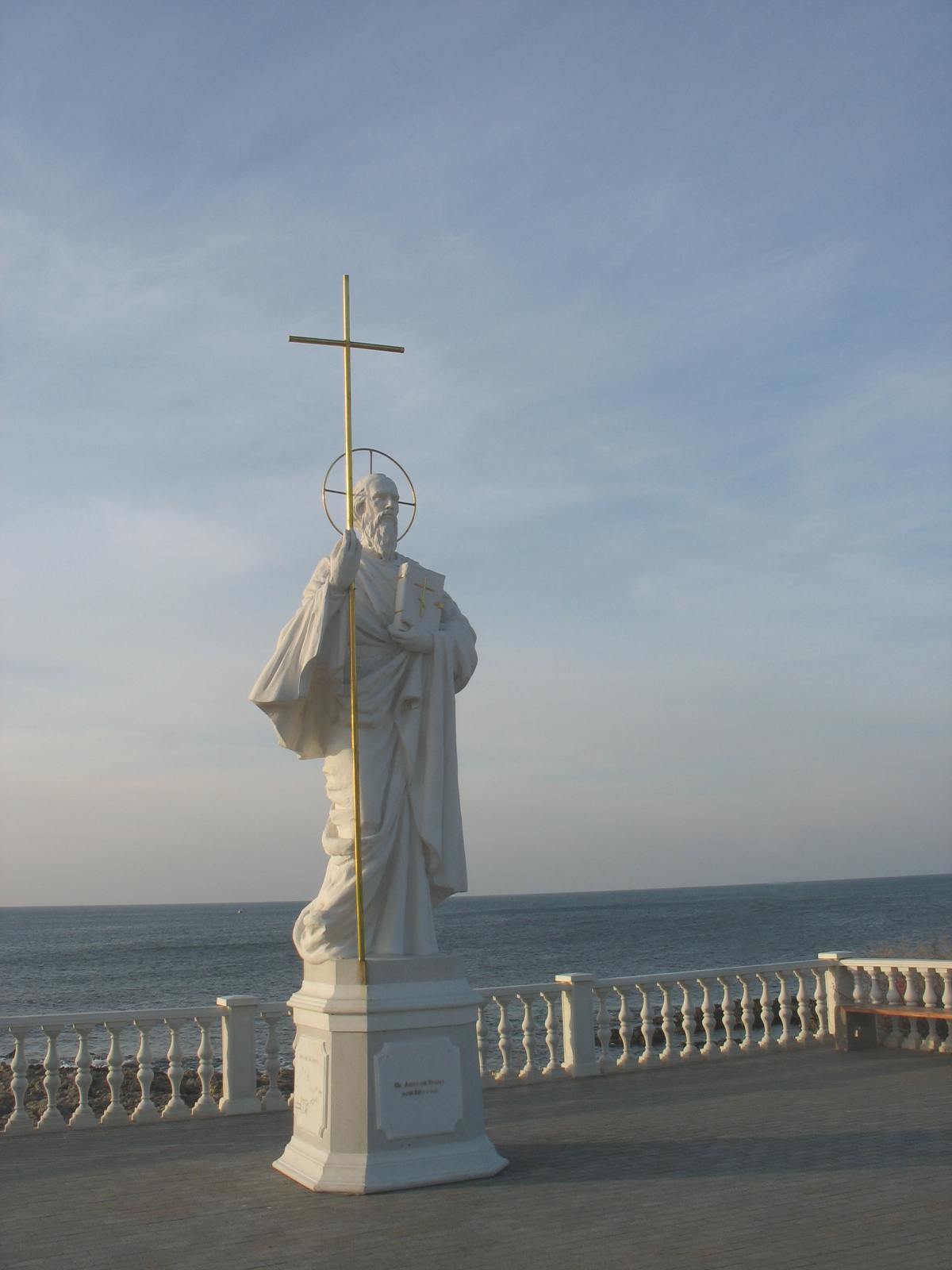 Monument to Andrew the Apostle шin Sevastopol (Omega Bay)